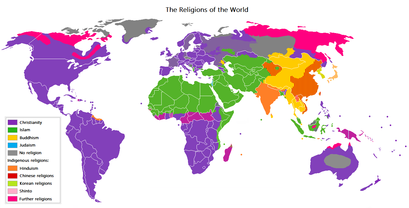 A map of the world, showing the major religions distributed in the world as of today. A different type of map which views only the religion as a whole excluding denominations or sects of the religions, and is colored by how the religions are distributed not by main religion of country etc.